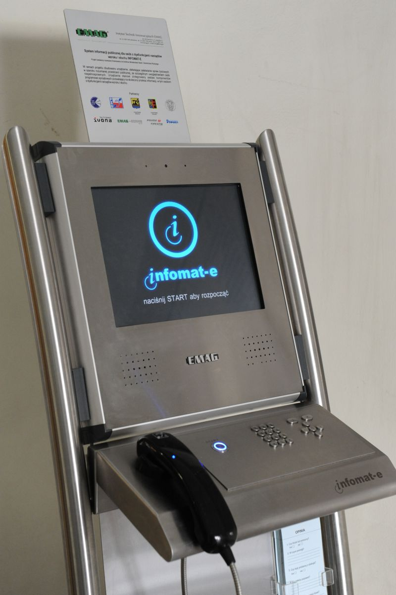 infomat-e